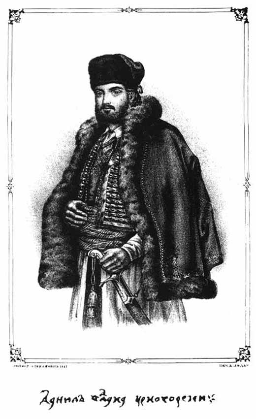 Danilo I Ščepćević Petrović Njegoš, a.k.a Vladika Danilo, prince-bishop of Montenegro.